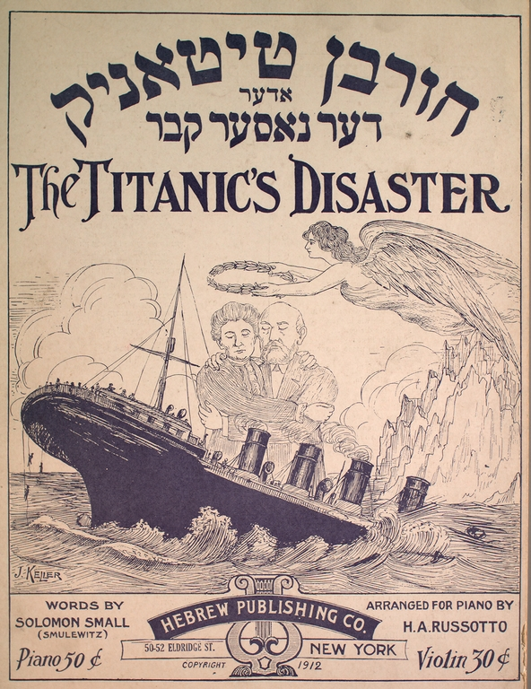 Hurban Titanic (The Titanic's Disaster): Yiddish song by Solomon Smulewitz. Words by Solomon Smulewitz (Small). Arranged for piano by H. A. Russoto. New York, 1912. Hebraic Section. Hebrew Publishing Company 83-87 Canal Street, New York. Piano 50 ¢ Violin 30 ¢